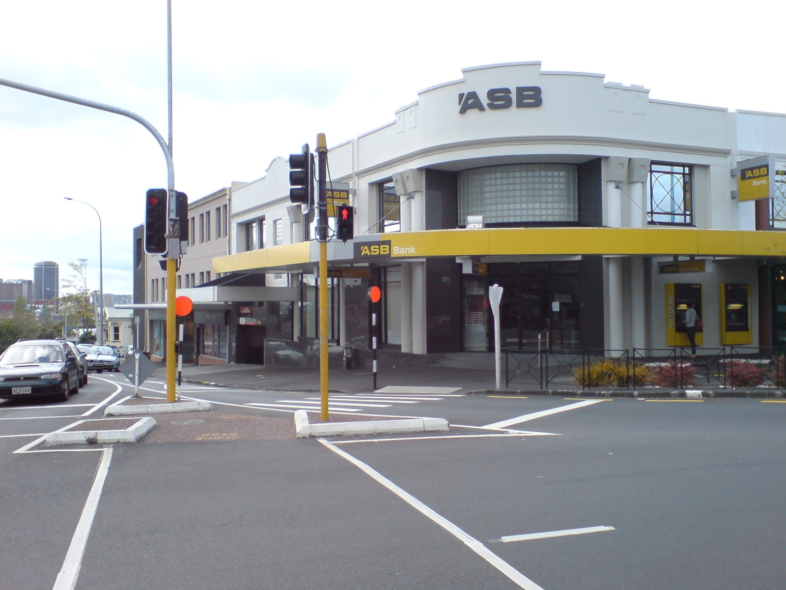 A branch of the ASB Bank on the corner of Ponsonby Rd and College Hill Rd, Ponsonby, Auckland City, New Zealand.